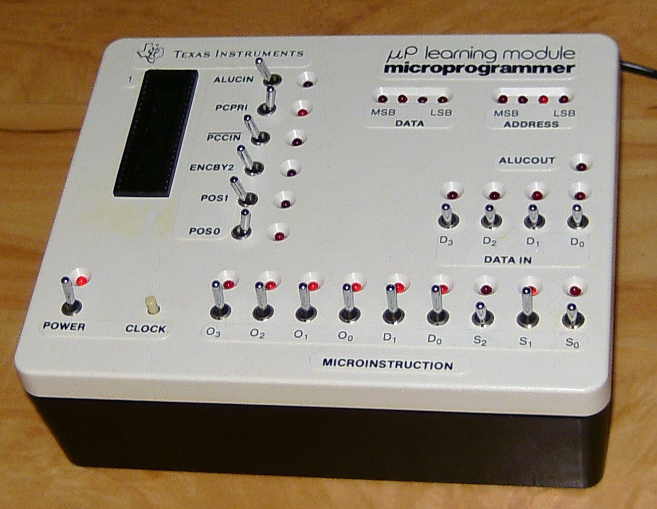 Texas Instruments Microprogrammer LCM-1001 learning computer modules series LCM-1000 part 1/4. 4-Bit CPU SBP0400